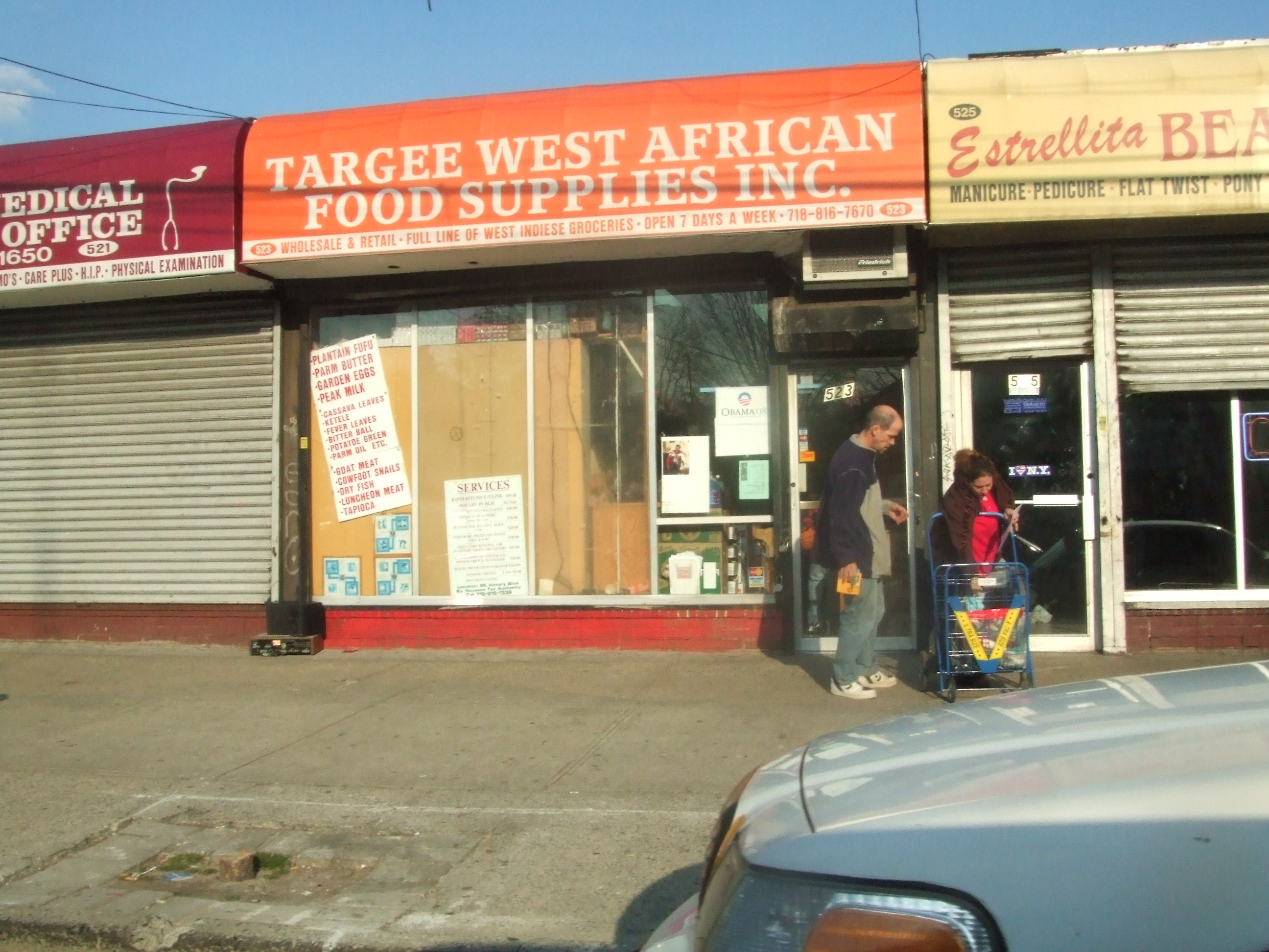 A Nigerian owned grocery store in the midst of "Little Liberia", Targee Ave Staten Island, NY